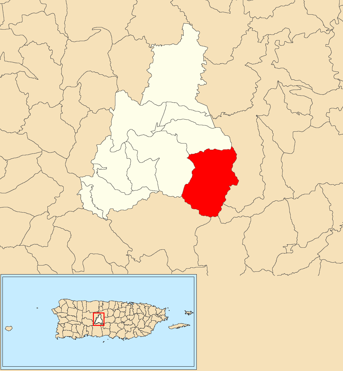 Saliente, Jayuya, Puerto Rico locator map